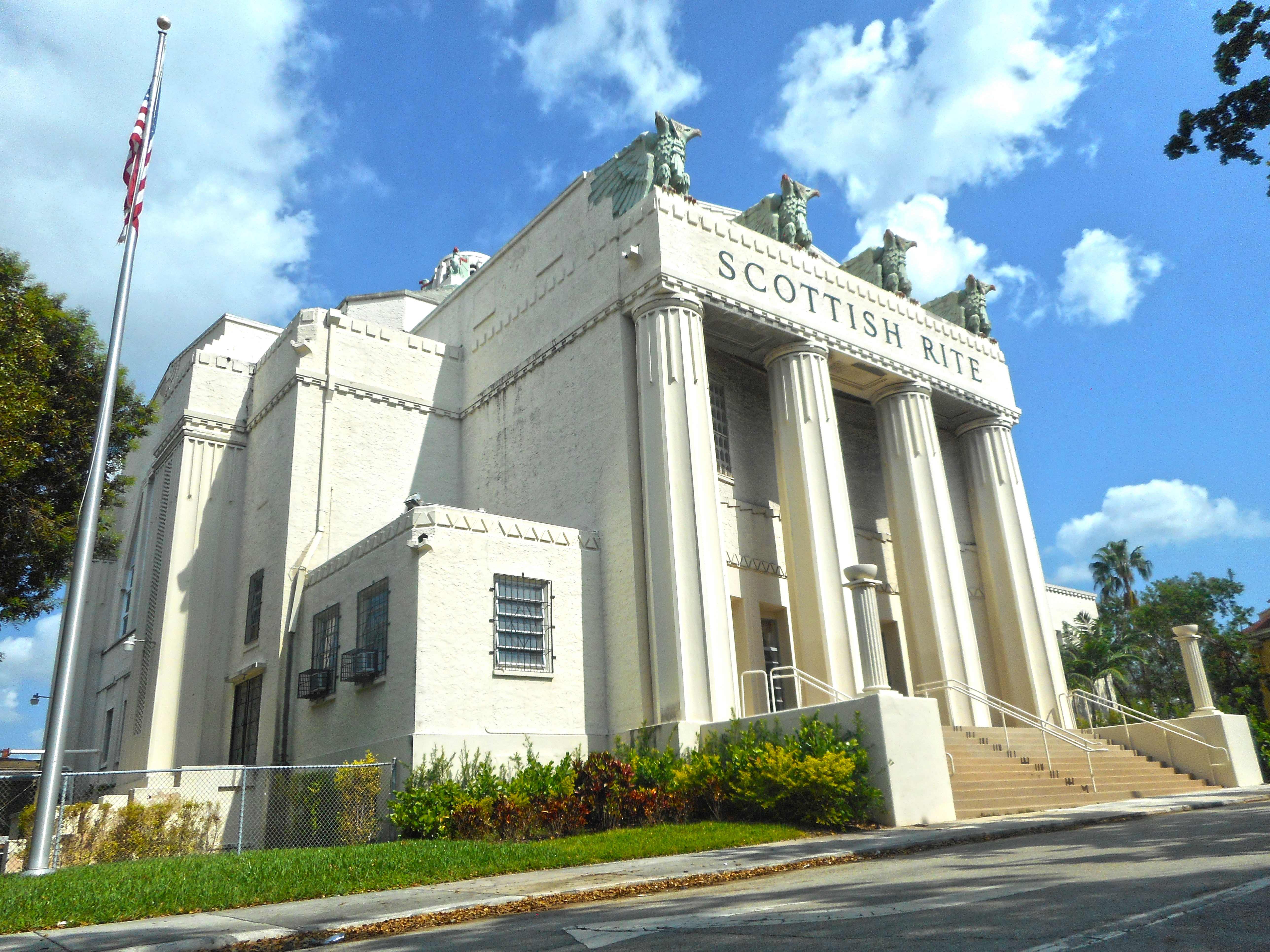 Scottish Rite Temple in the Lummus Park Historic District in Miami